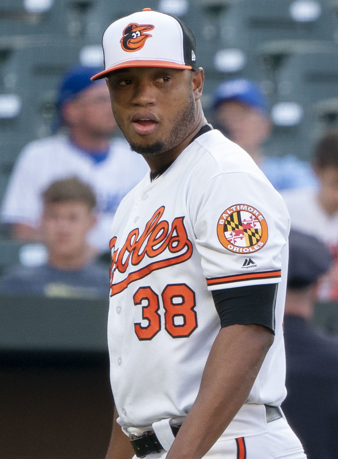 Royals at Orioles 5/9/18 17-year-old senior at the Gilman School who is one of just a handful of students across the country to be accepted into all eight Ivy League schools.